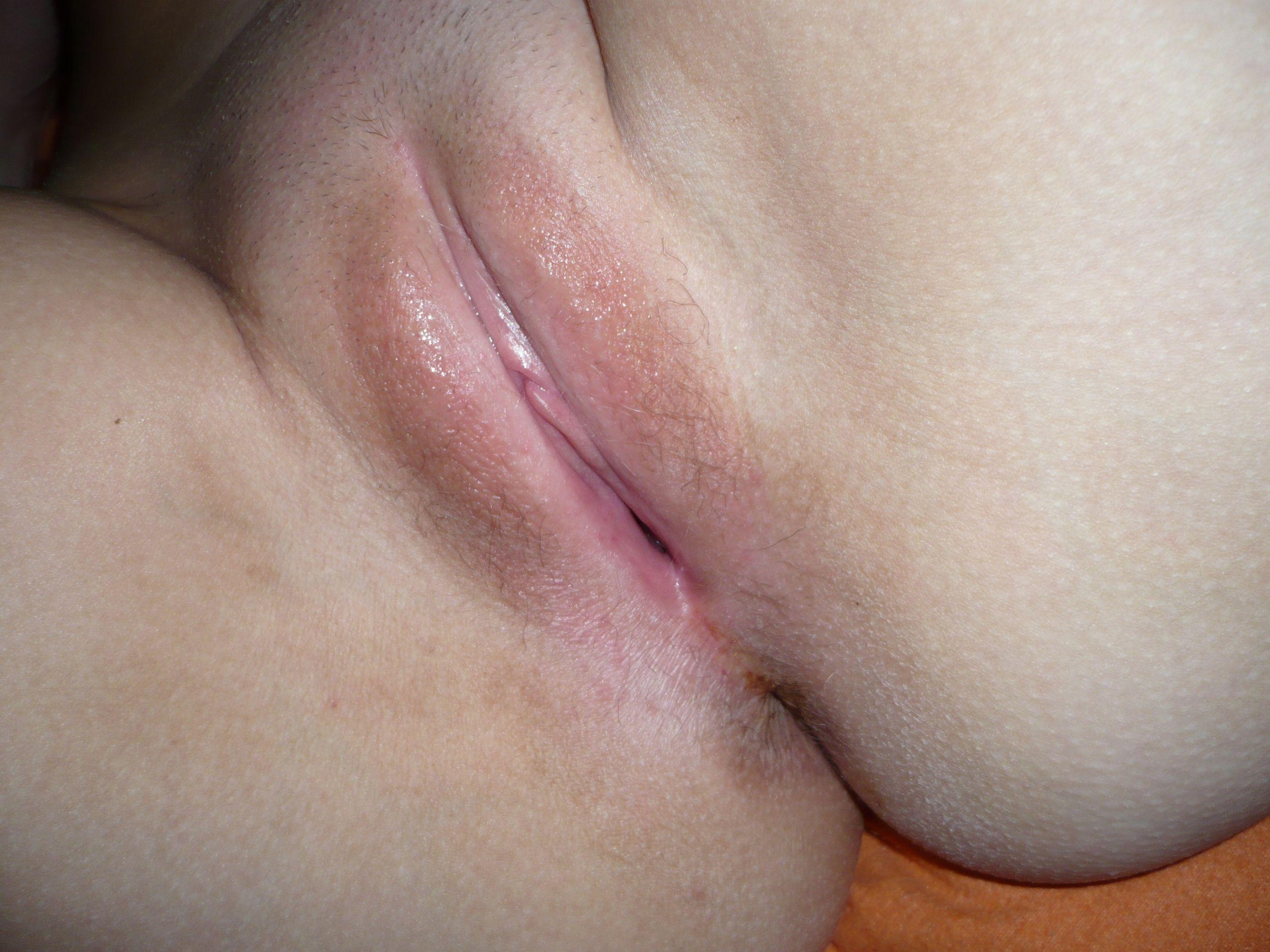 A vulva